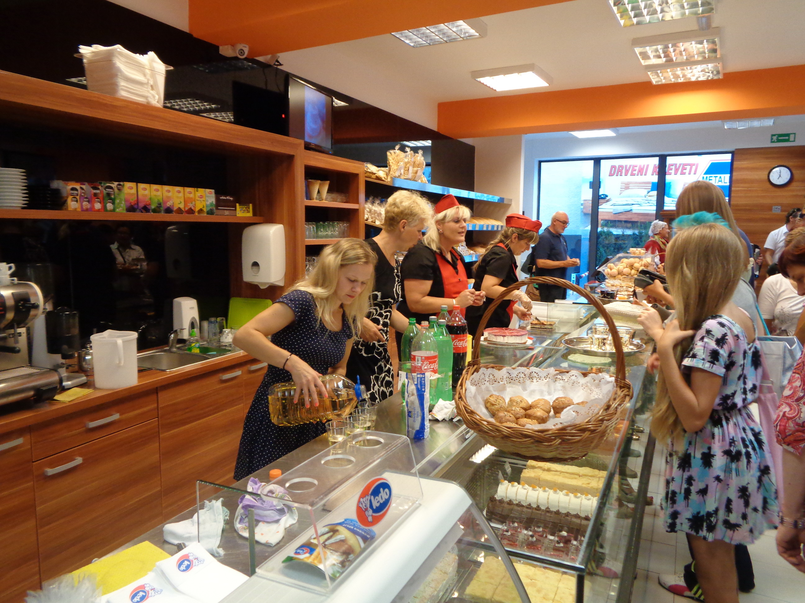 "Medjimurska gibanica" cake shop, Čakovec, Croatia - staff